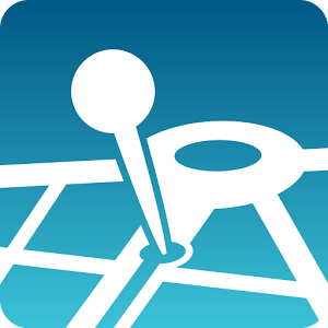 icon for Meo Telecommunication's Meo Drive